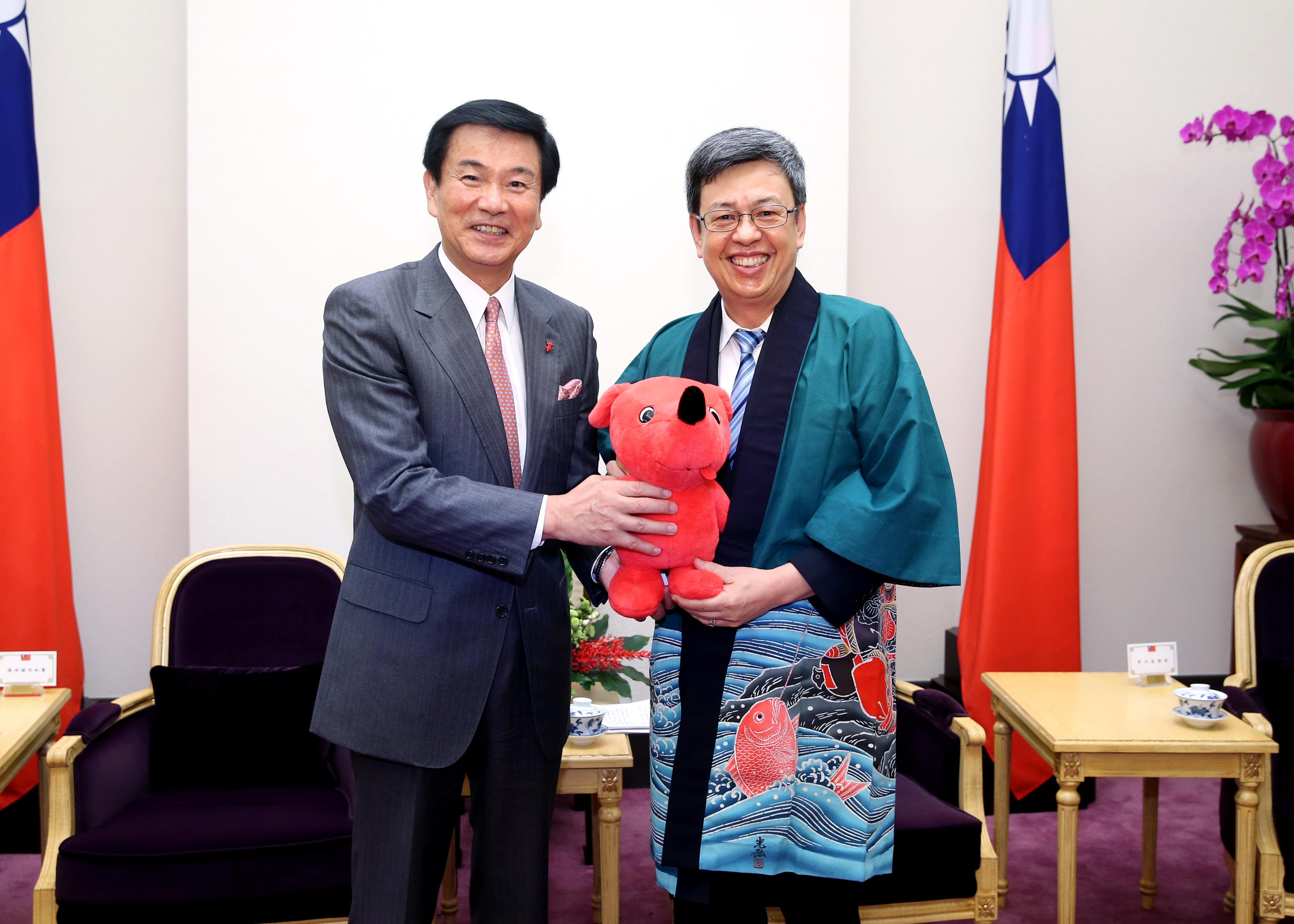 Vice President Chen meets Kensaku Morita, governor of Chiba Prefecture, Japan. (2016/08/10) 授權方式及範圍：中華民國總統府│政府網站資料開放宣告 Authorization Method & Scope: Office of the President, Republic of China (Taiwan) | Government Website Open Information Announcement